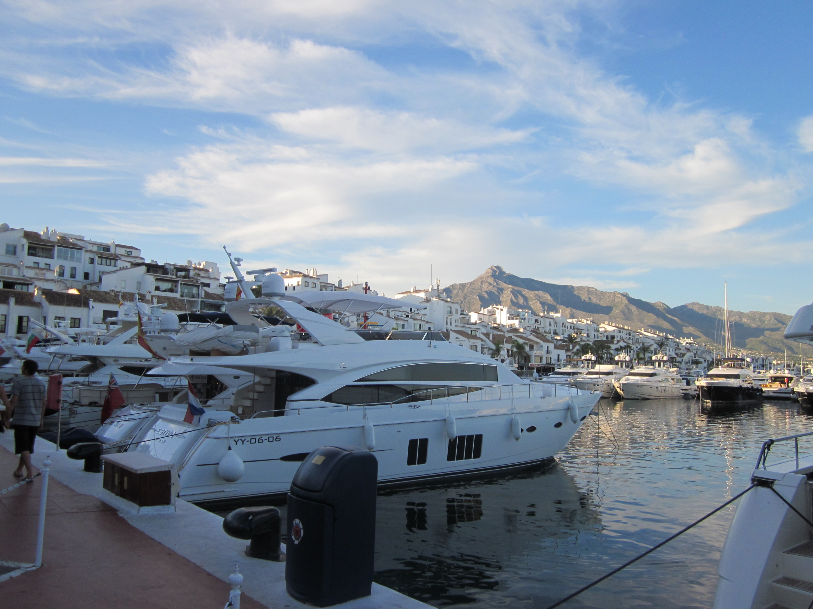 Marina, Puerto Banús (Marbella), Spain